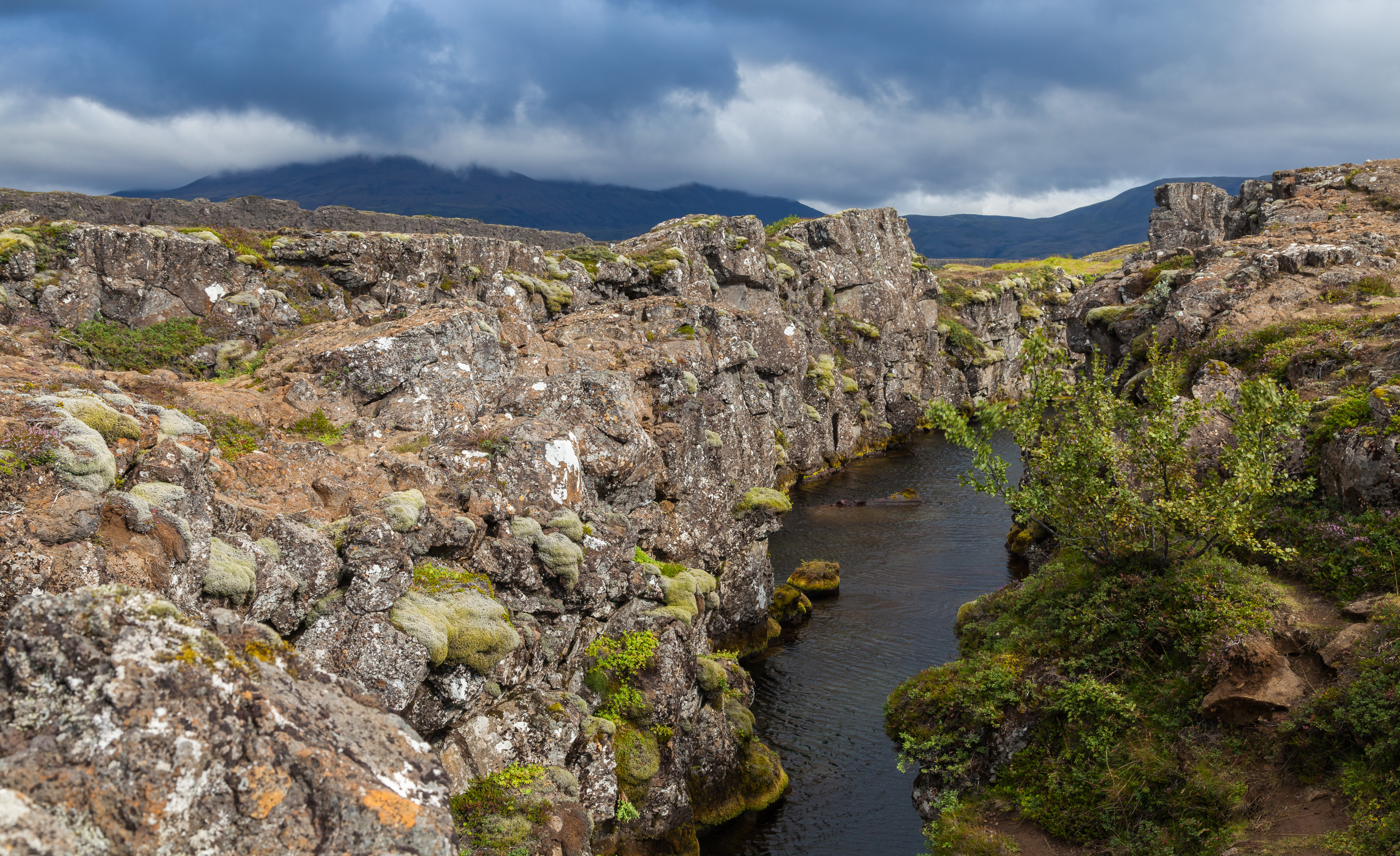 Nikulasargja canyon, Þingvellir National Park, Suðurland, Iceland